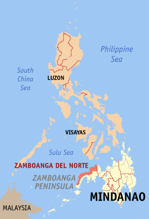 Map of the Philippines showing the location of Zamboanga del Norte